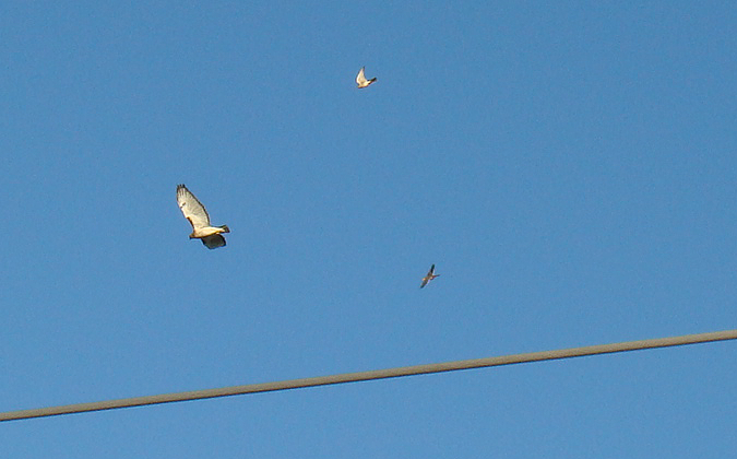 Male and female American Kestrels attacking the much larger male Red Tailed Hawk. Taken in Plano Texas.